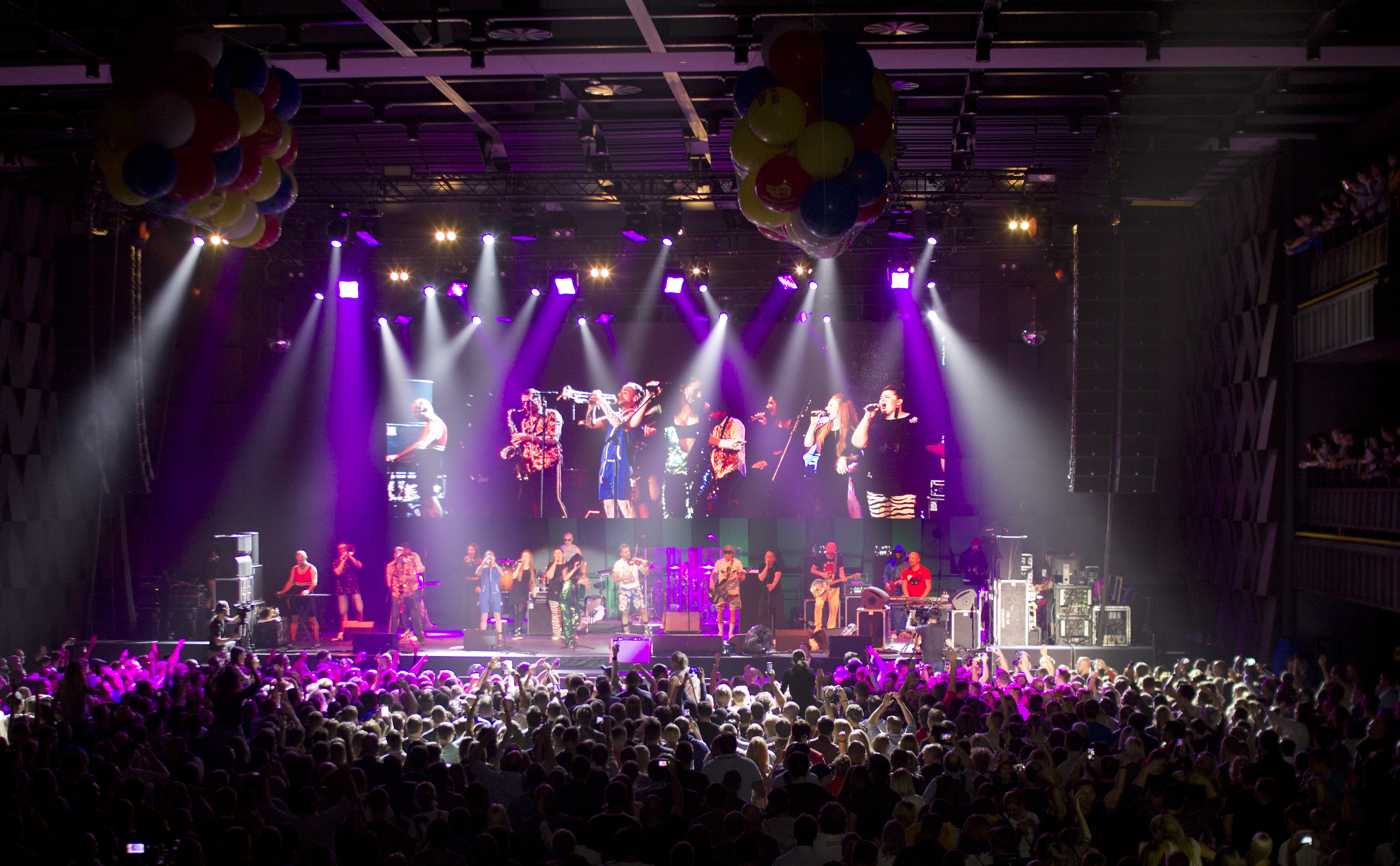 Concert of band Leningrad in Prague, Forum Karlín 2017 This serie was captured thanks to Berin Art